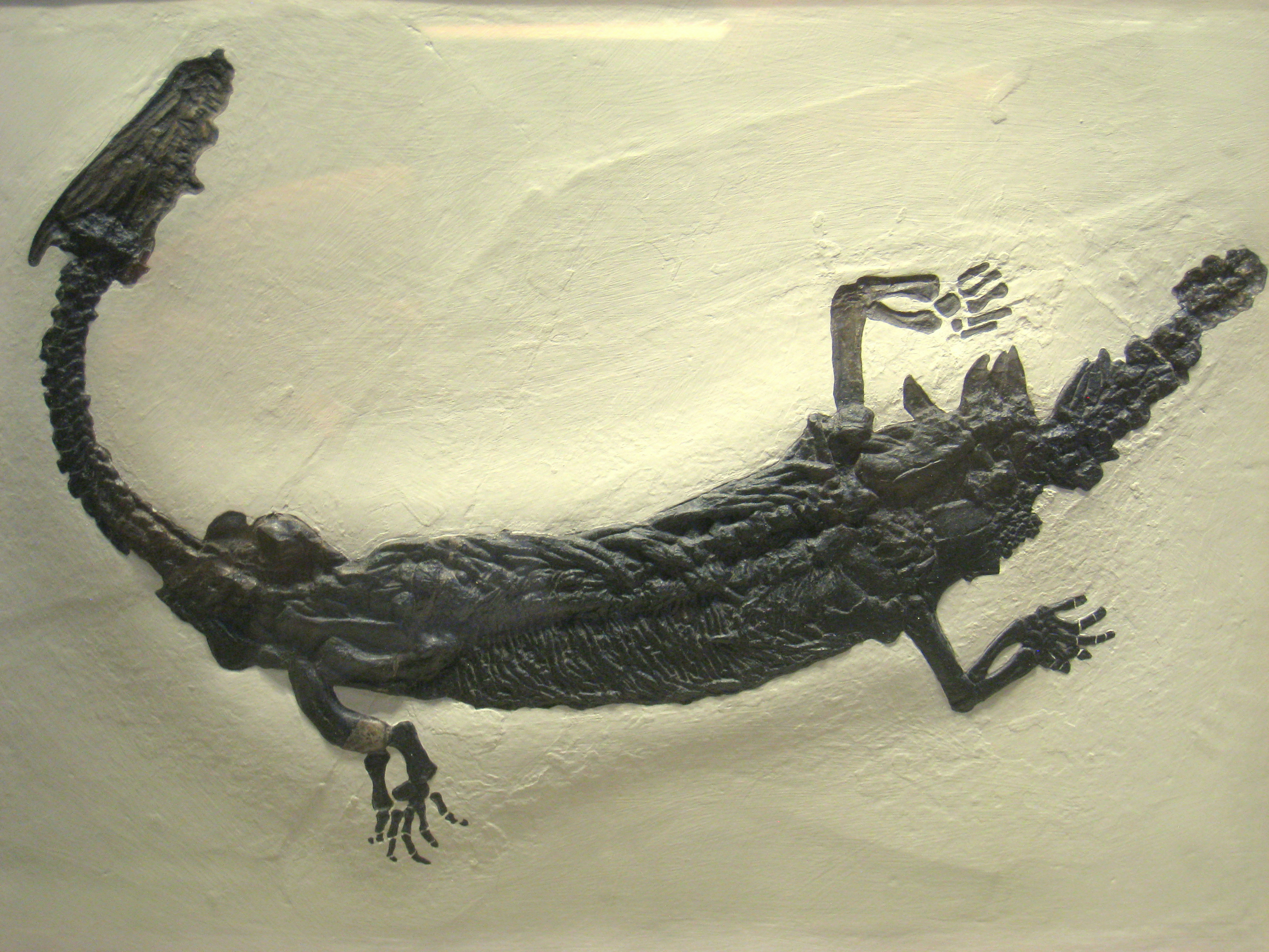 Lariosaurus sp., Carnegie Museum of Natural History, Pittsburgh, Pennsylvania, USA.